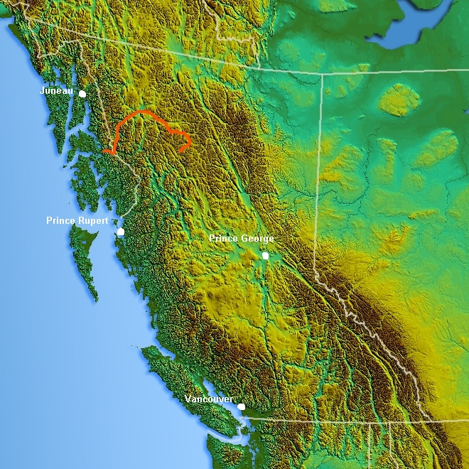 Stikine River in British Coloumbia, Canada